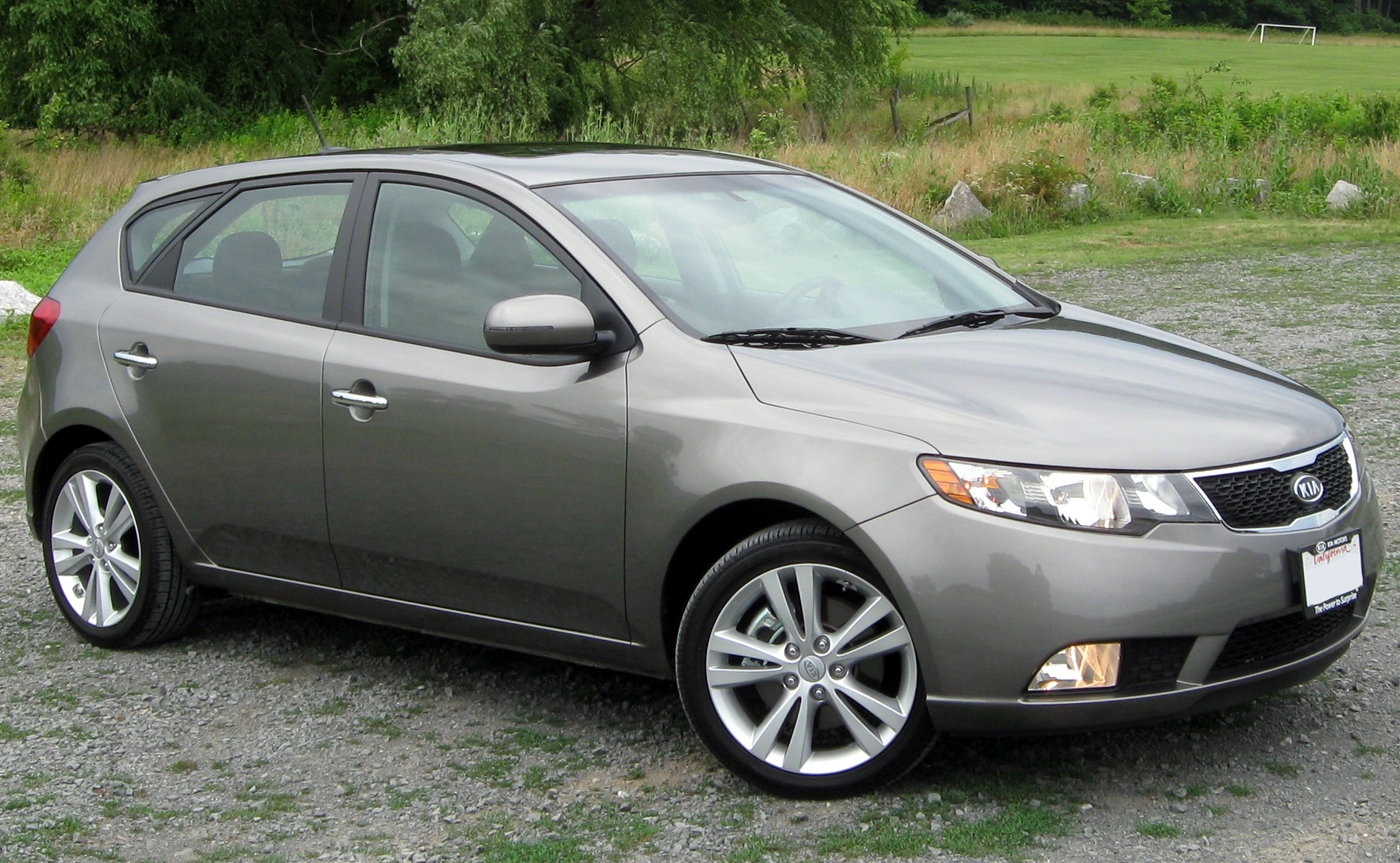 2011 Kia Forte photographed in Chantilly, Virginia, USA.